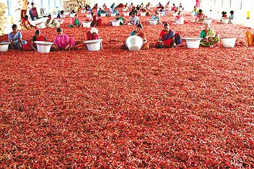 Andhra Chillis